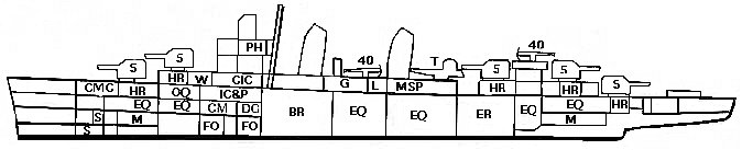 Diagram of USS Cassin Young.